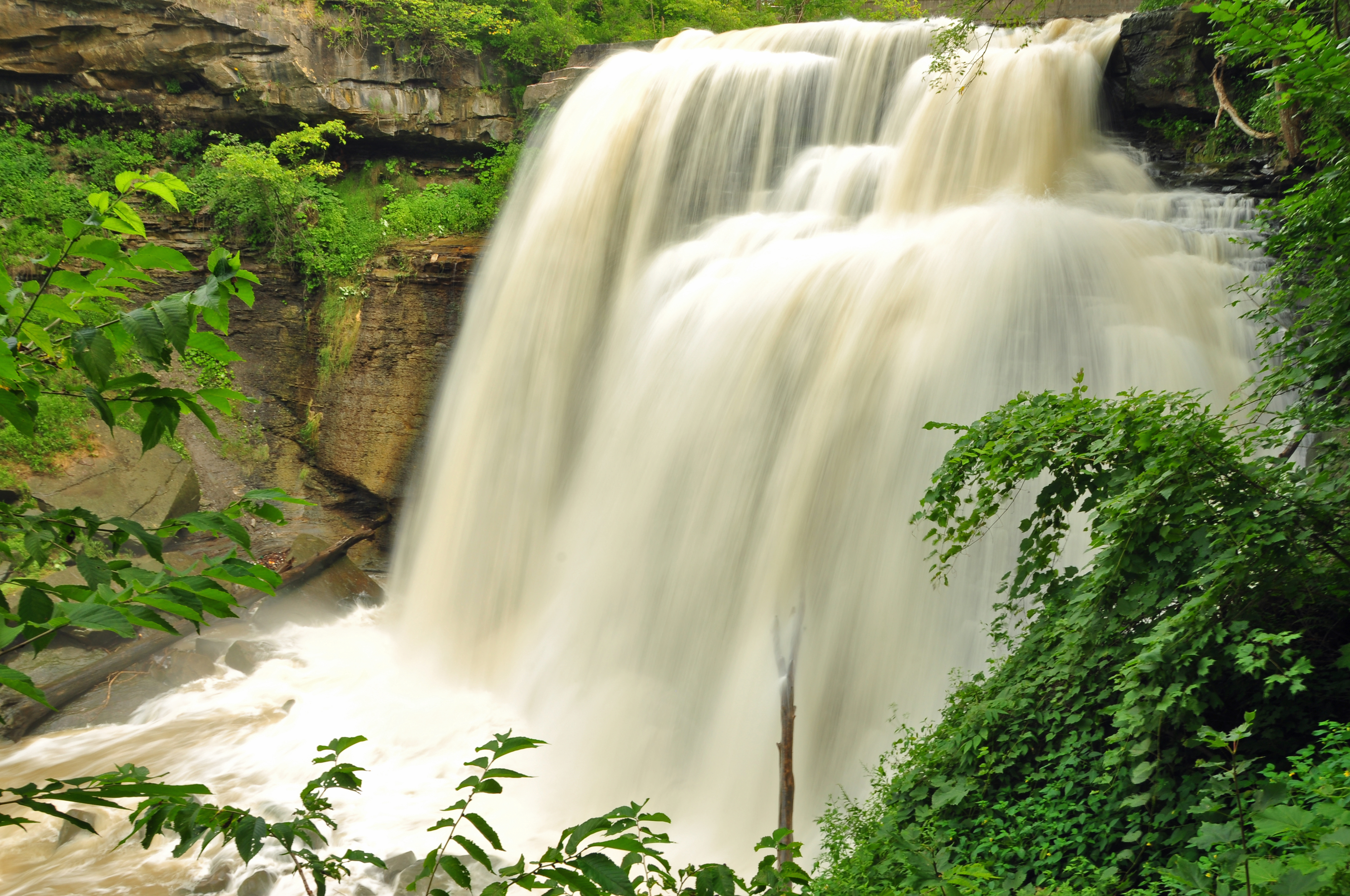 Brandywine Falls after a storm in the Cuyahoga Valley